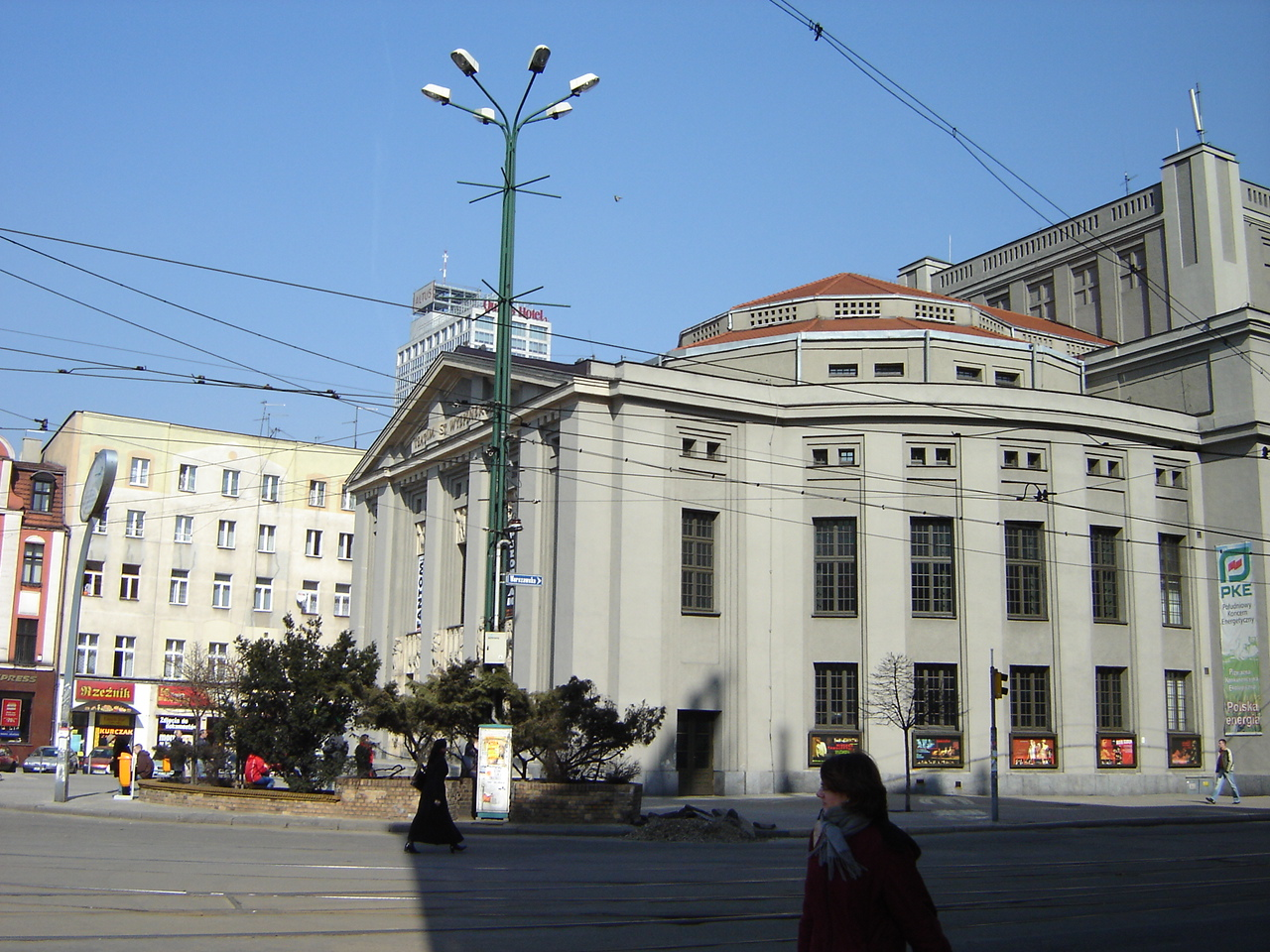 The Wyspianski's Theather in Katowice.